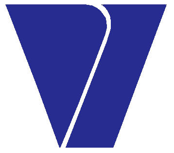 Viacom V of Doom logo